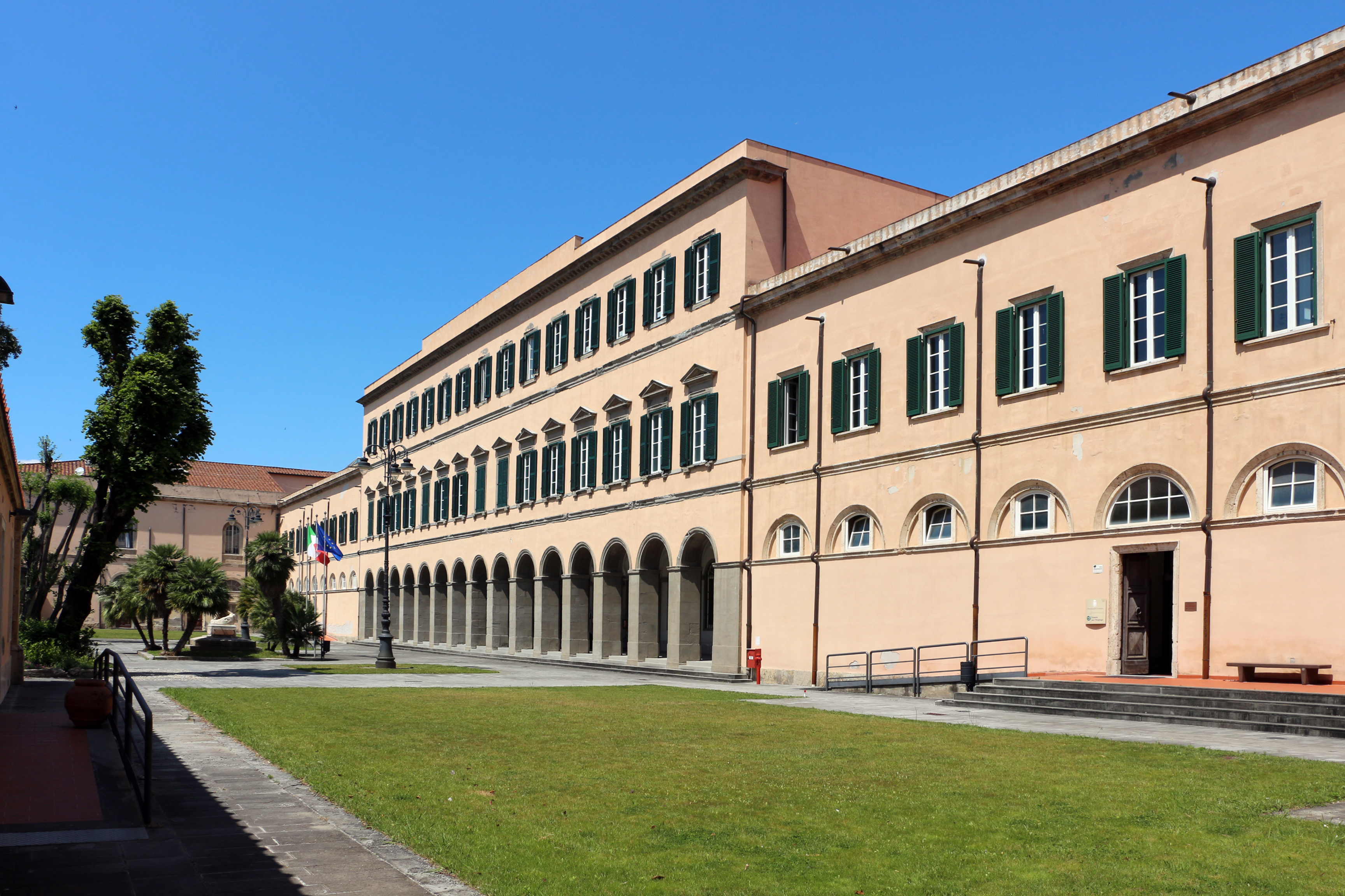 Palazzo Della Gherardesca (Livorno)